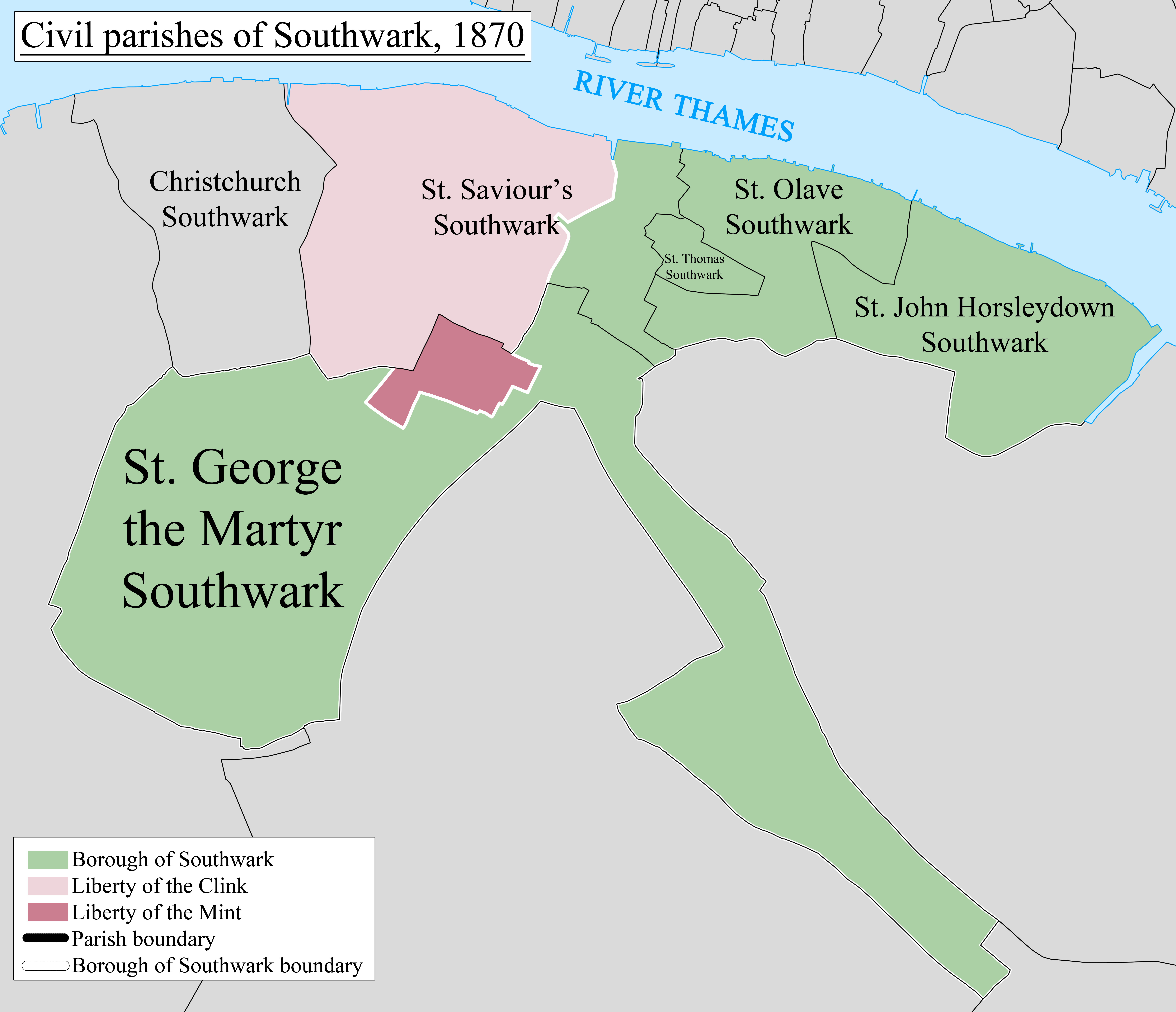 A map showing the civil parishes of Southwark as they appeared in 1870. Based on the Ordnance Survey Town Plan of London (1871-76) at 1:1056 scale.